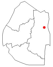 Siteki, Eswatini Location Map; created with the GIMP